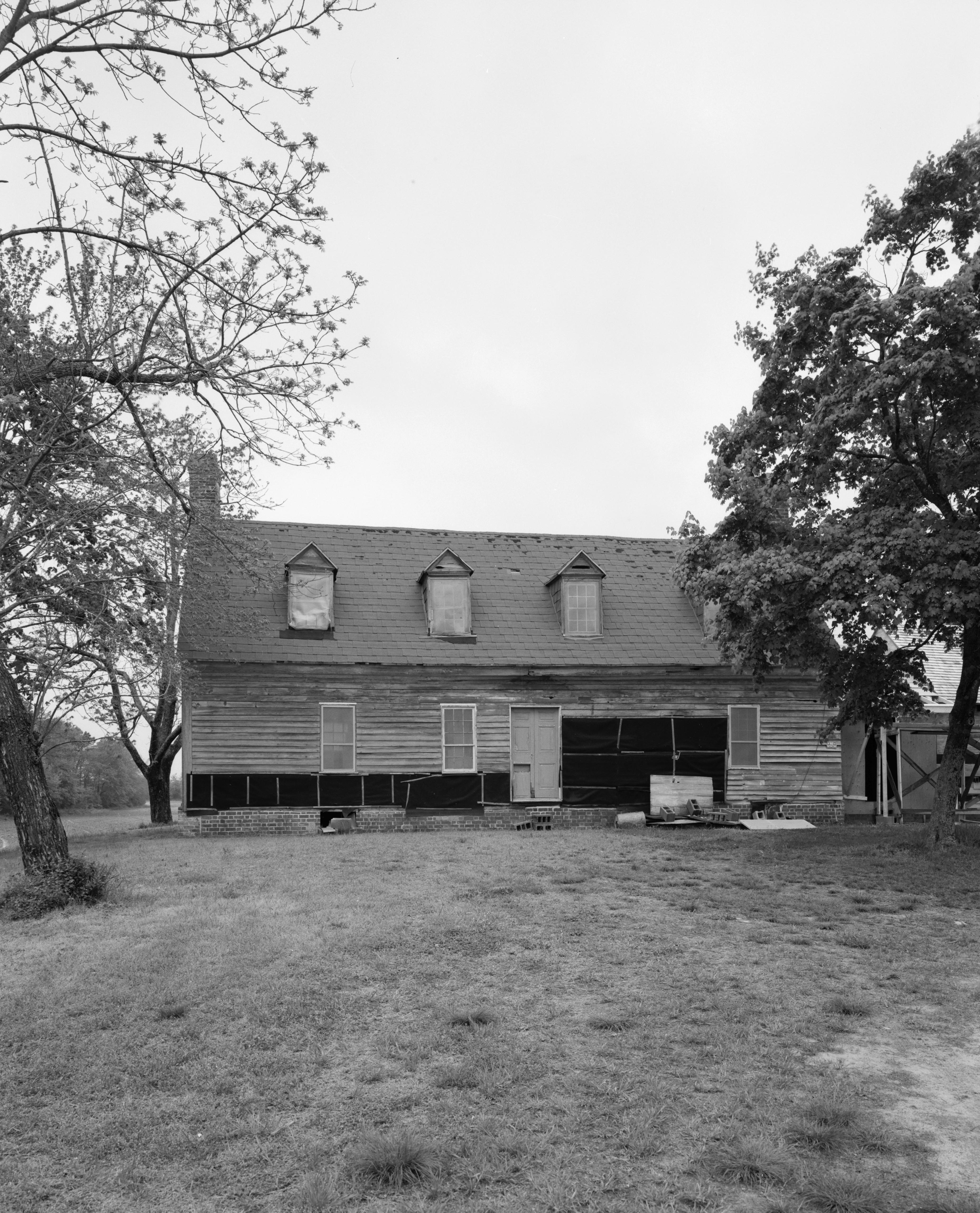 Front of Bounds Lott — located four miles west of Allen in Wicomico County, Maryland. The house is listed on the National Register of Historic Places. Image courtesy of the federal HABS—Historic American Buildings Survey of Maryland.